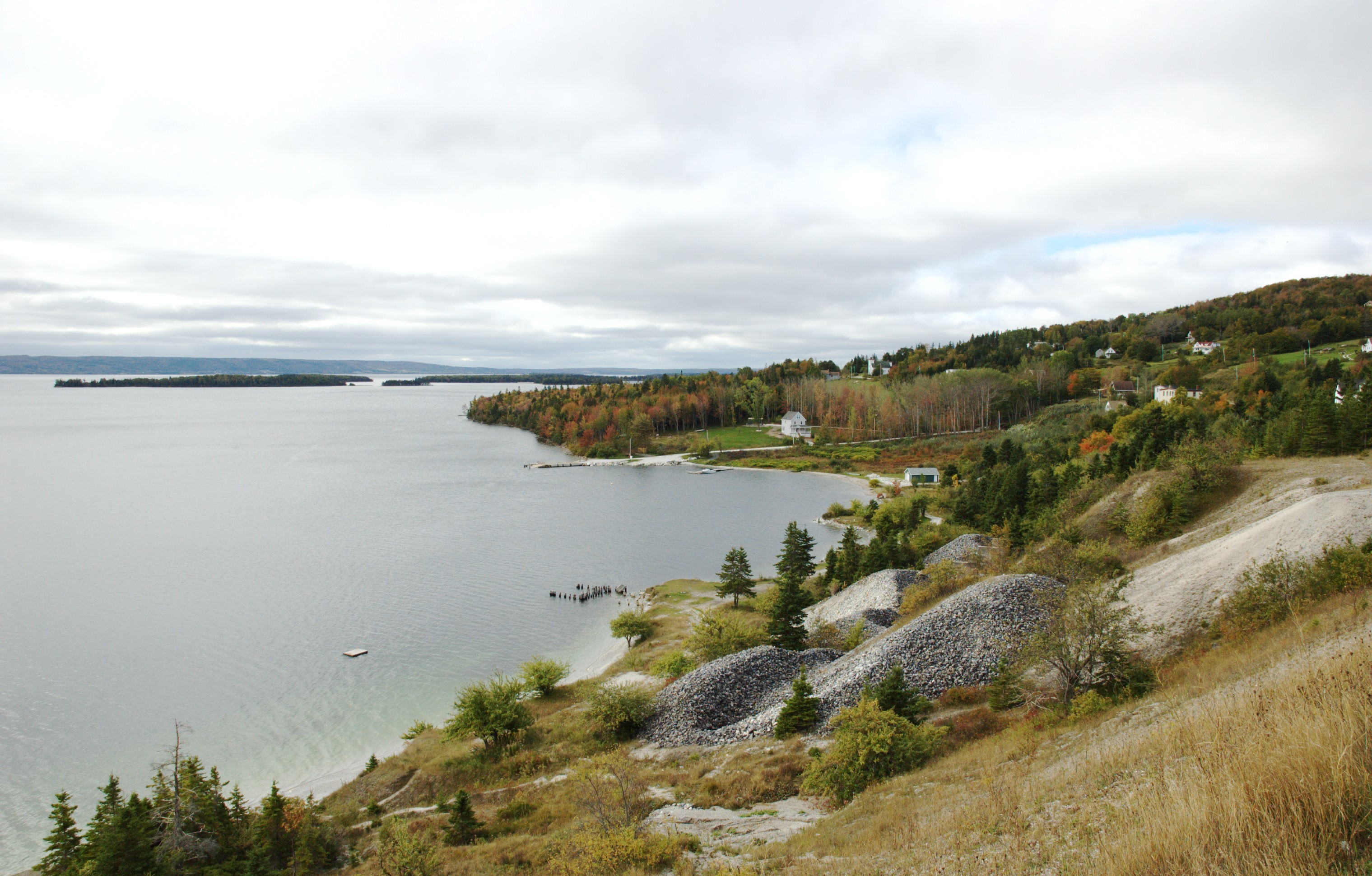 The shores of Bras d'Or Lake